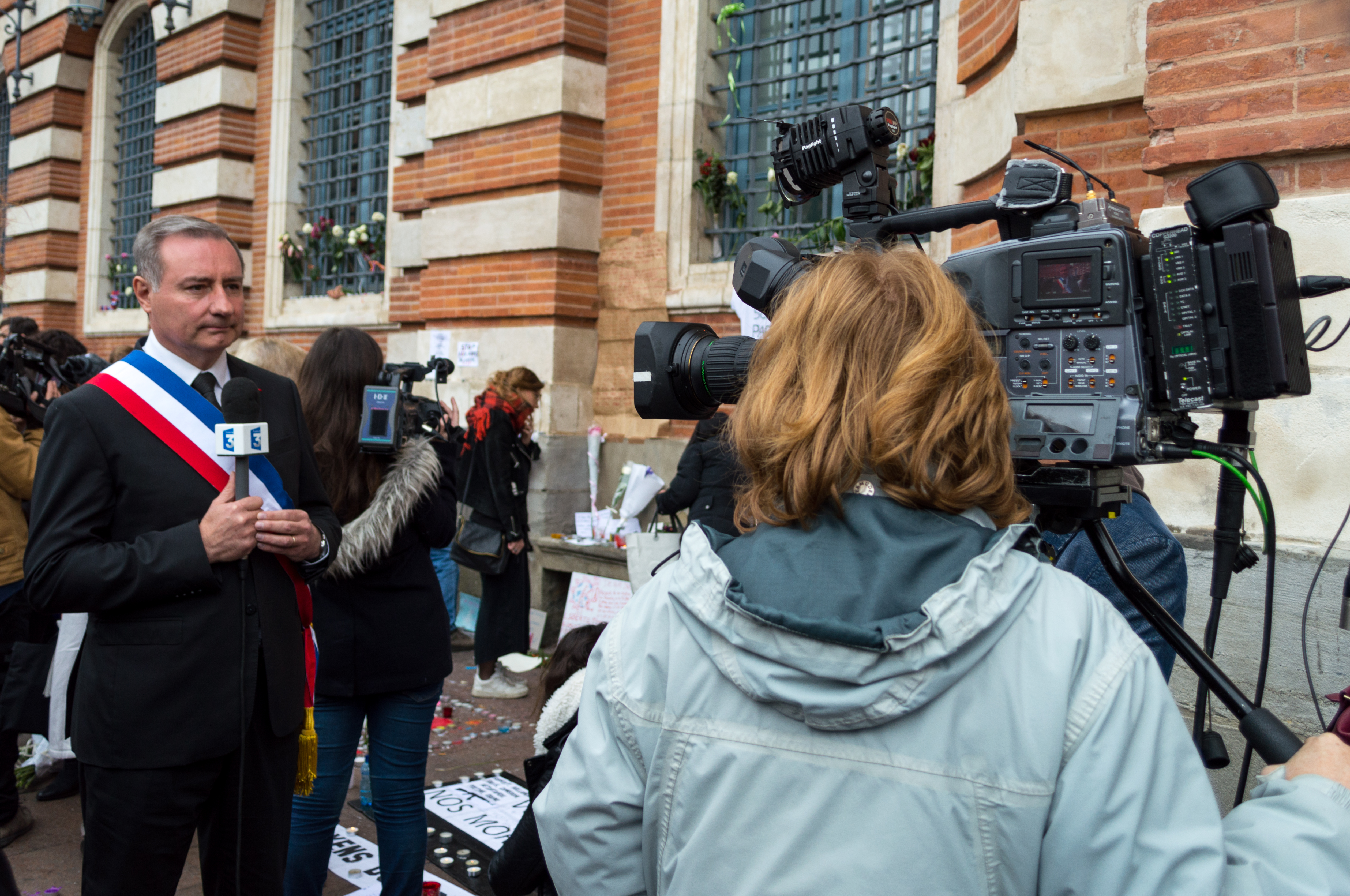 Mayor of Toulouse Jean-Luc Moudenc about to go live on France 3 Midi-Pyrénées after a minute of silence in memory of the people murdered during the Paris attacks.